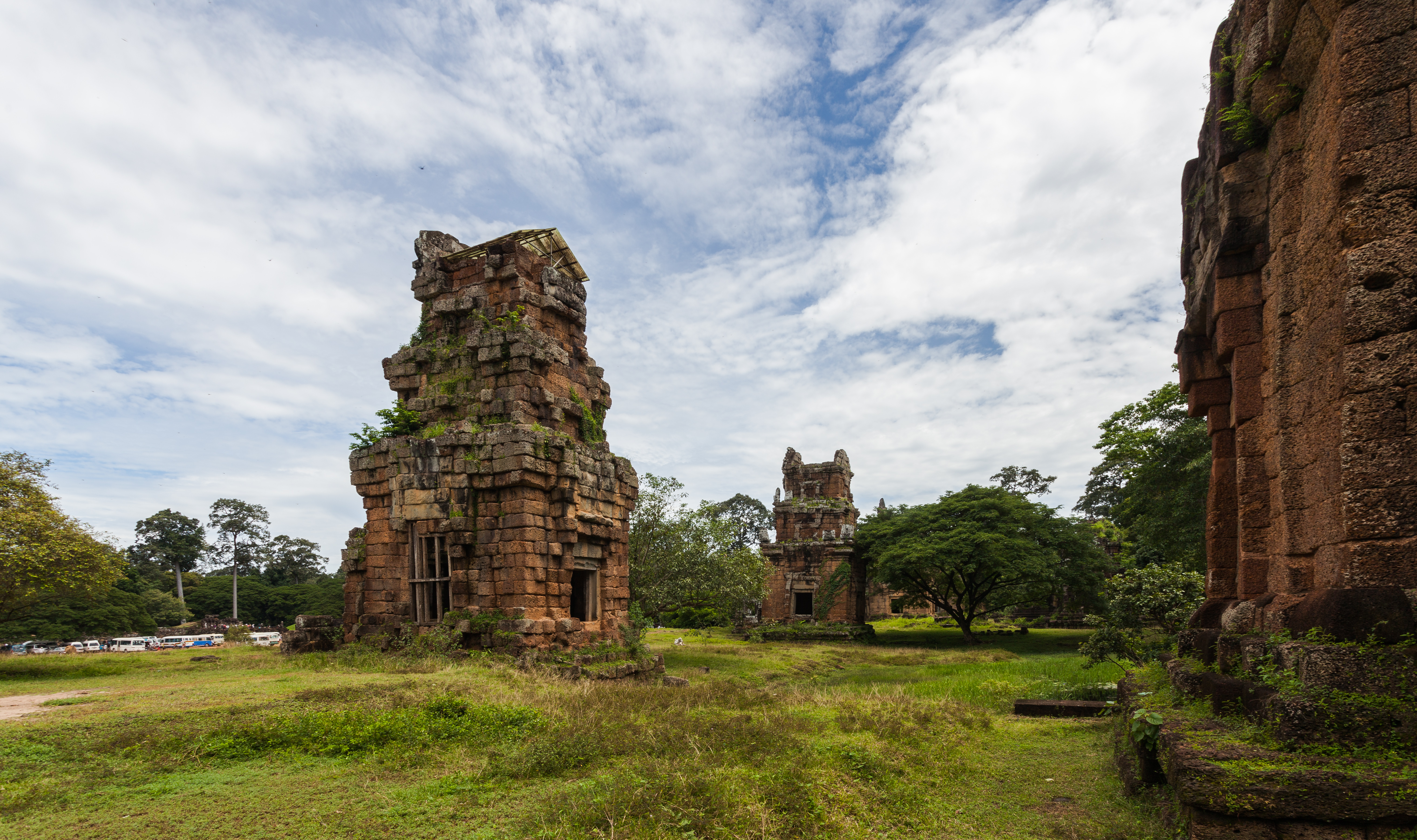 Prasat Suor Prat, Angkor Thom, Cambodia